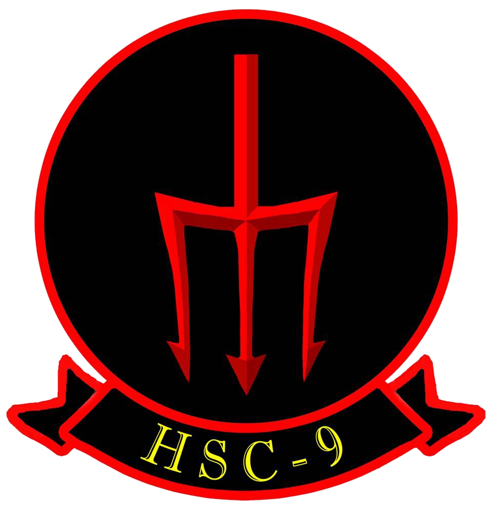 HSC-9 LOGO